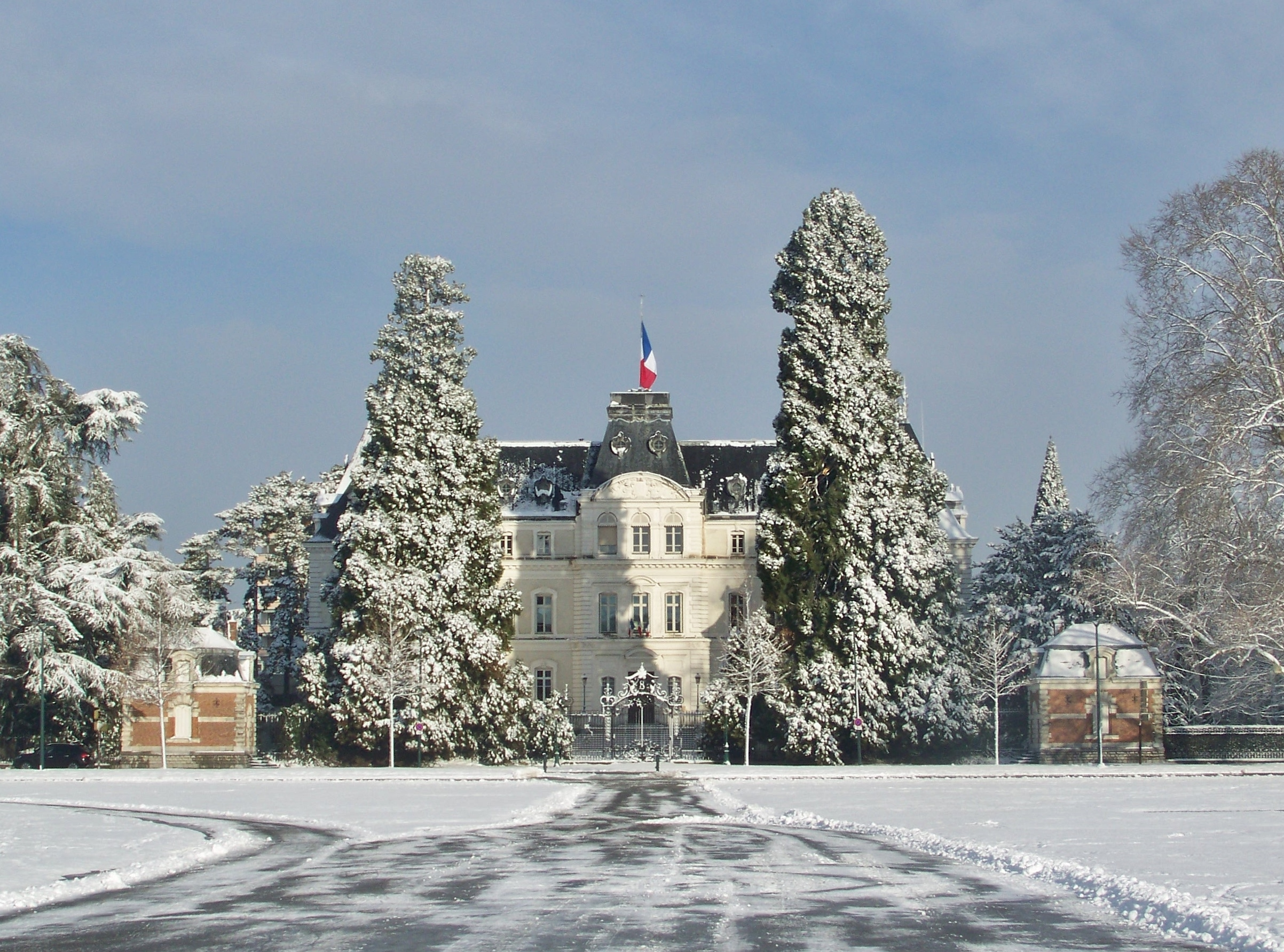 Sight of prefecture of Haute-Savoie building in winter, in Annecy, France.